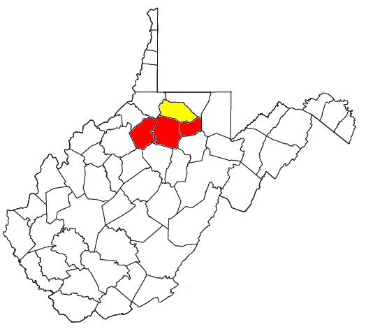 Locator map of the components of the Fairmont-Clarksburg Combined Statistical Area in the northern part of the U.S. state of West Virginia. The Clarksburg Micropolitan Statistical Area is shown in red, and the Fairmont Micropolitan Statistical Area is highlighted in yellow.